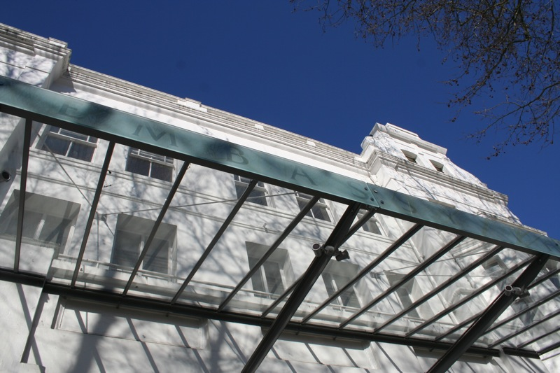 The Embassy Theatre, home of the Central School of Speech and Drama, Swiss Cottage, London, UK.